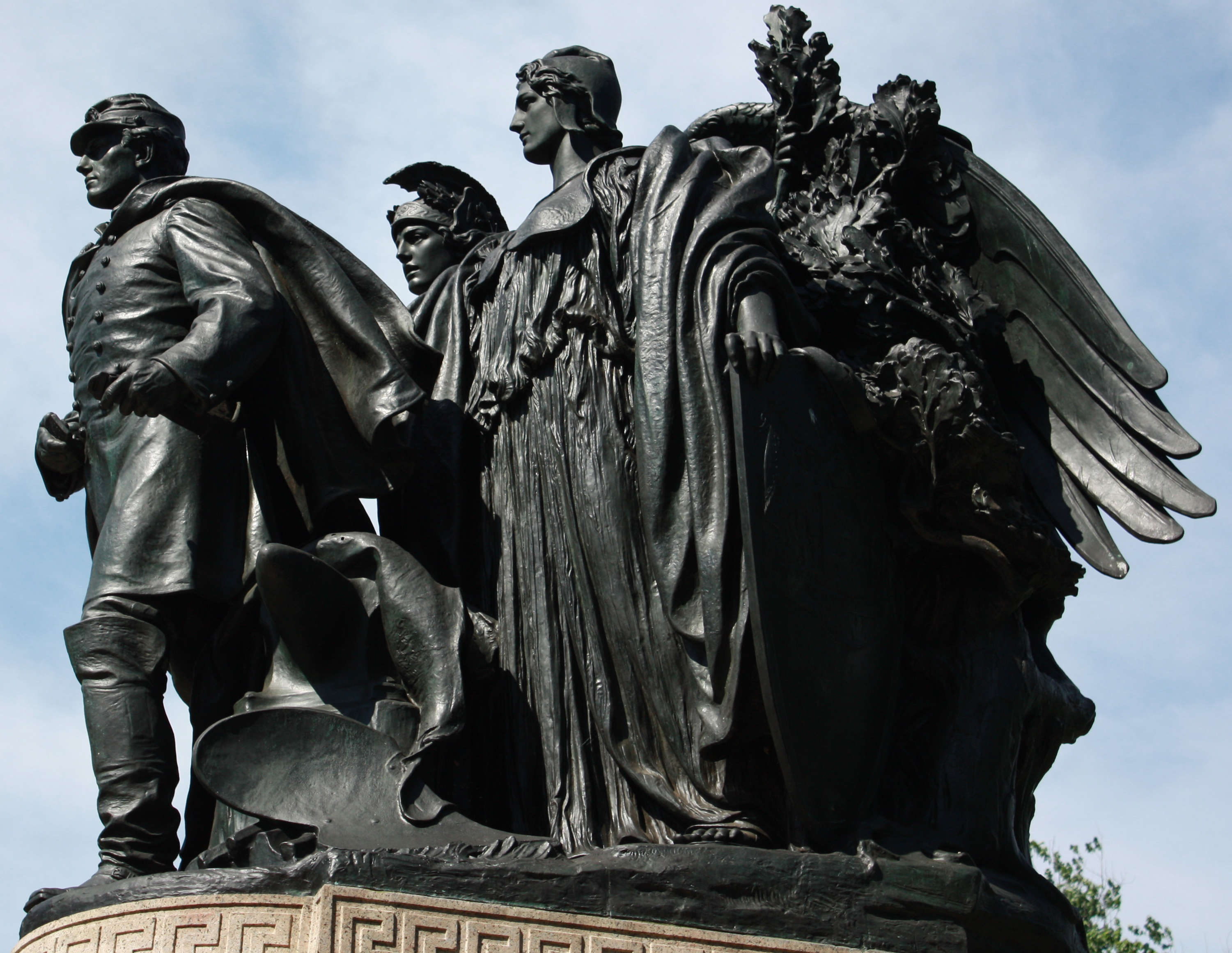 Adolph Weinman's Union Soldiers and Sailors' Monument, erected 1909. Located in the public parks of Baltimore ever since, see here. In public domain by virtue of pre-1923 erection which is deemed publication, see Commons page on Licensing.